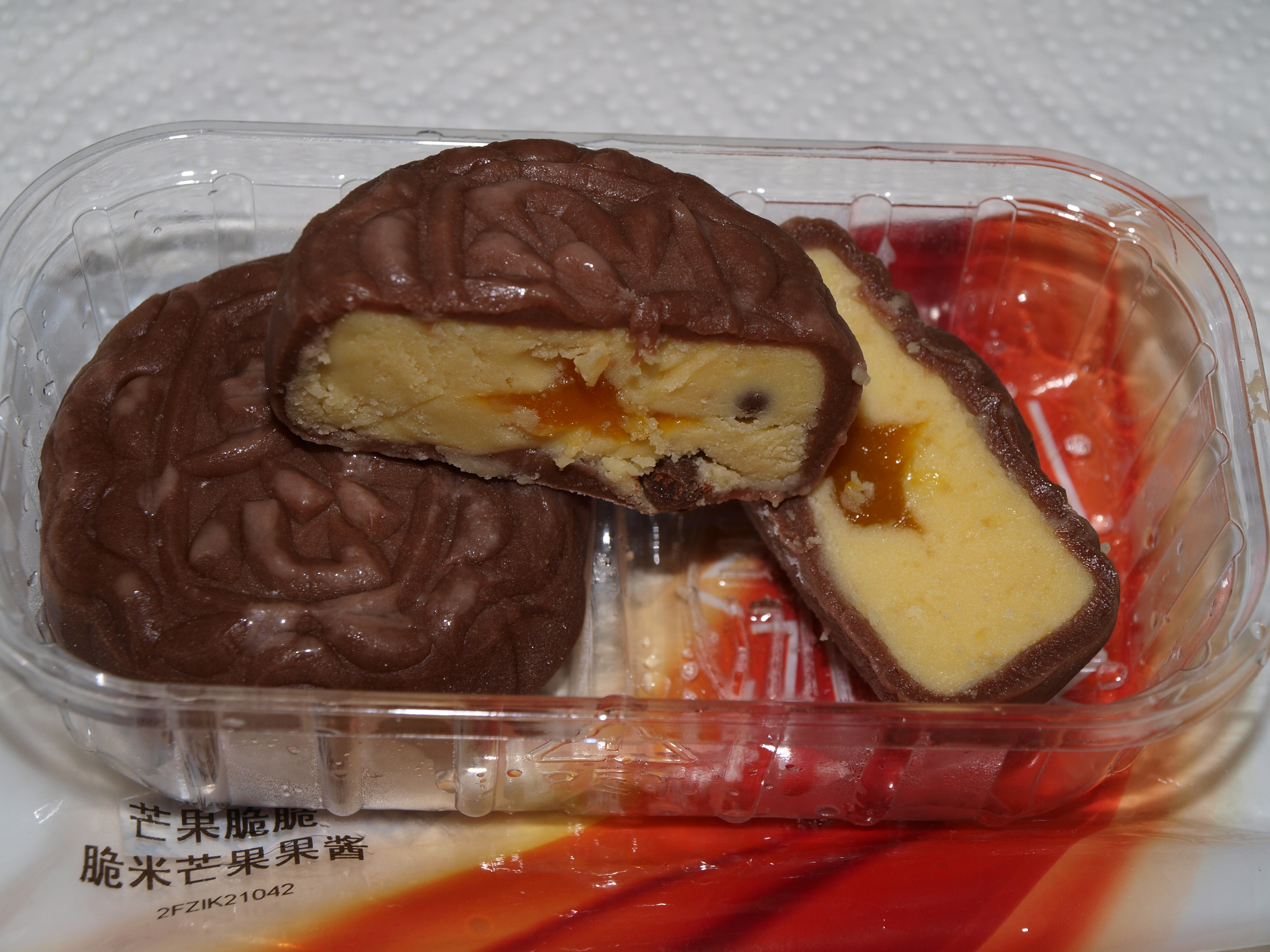 This is a pack of snowy mooncakes in Hong Kong. The flavor is mango jam with crispy rice.